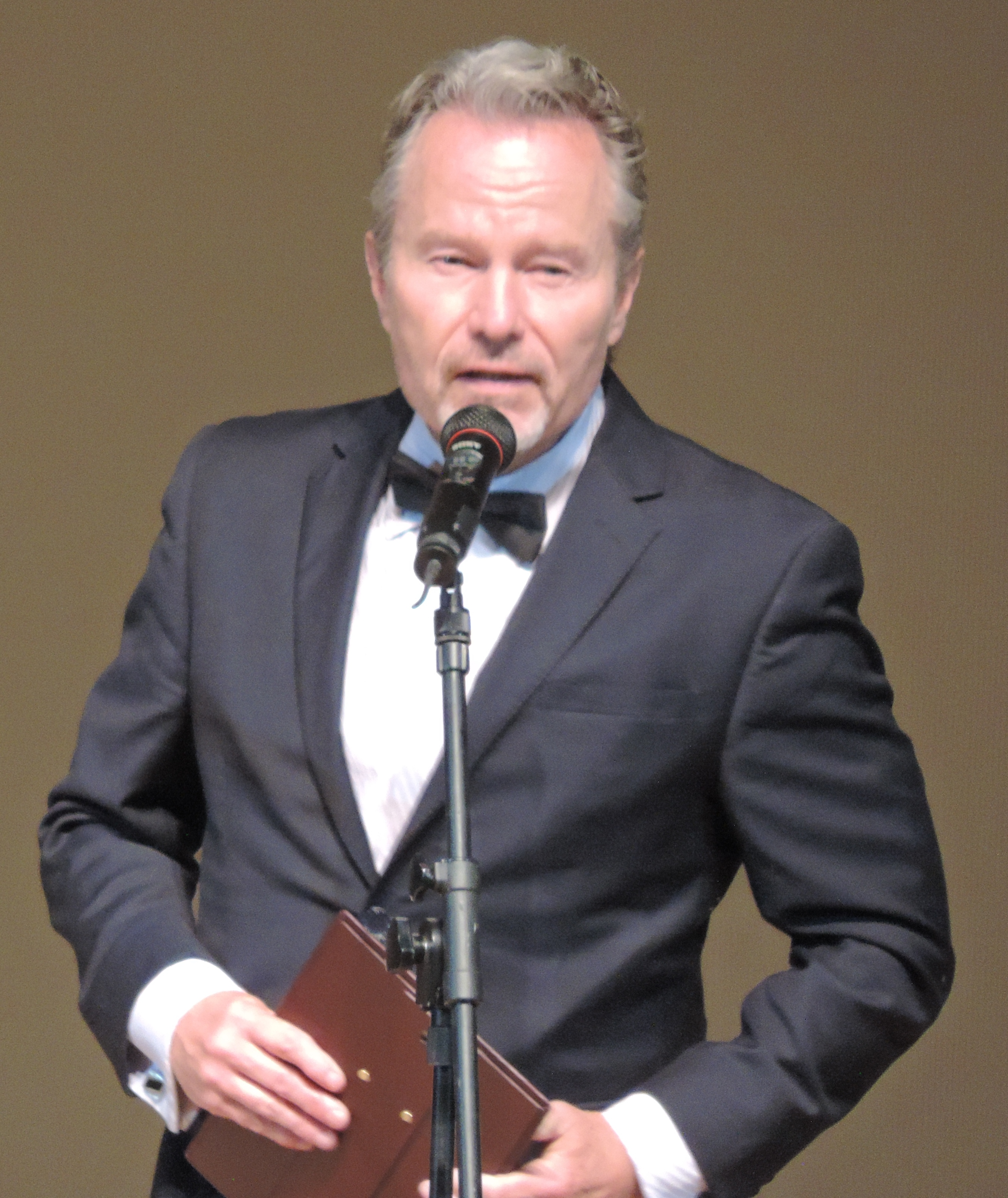 John Savage, Sofia International Film Festival 2017